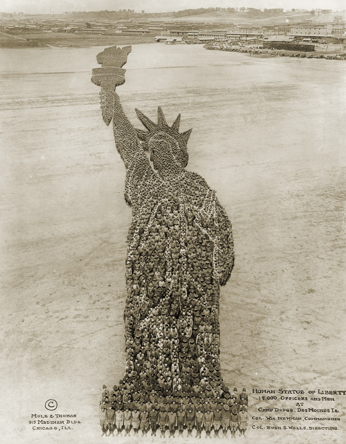 This INCREDIBLE picture was taken in 1918. It is 18,000 men preparing for war in a training camp at Camp "Dodge", in Iowa. FACTS: Base to Shoulder: 150 feet; Right Arm: 340 feet; Widest part of arm holding torch: 12 1/2 feet; Right thumb: 35 feet; Thickest part of body: 29 feet; Left hand length: 30 feet; Face: 60 feet; Nose: 21 feet; Longest spike of head piece: 70 feet; Torch and flame combined: 980 feet; Number of men in flame of torch: 12,000; Number of men in torch: 2,800; Number of men in right arm: 1,200; Number of men in body, head and balance of figure only: 2,000; Total men: 18,000